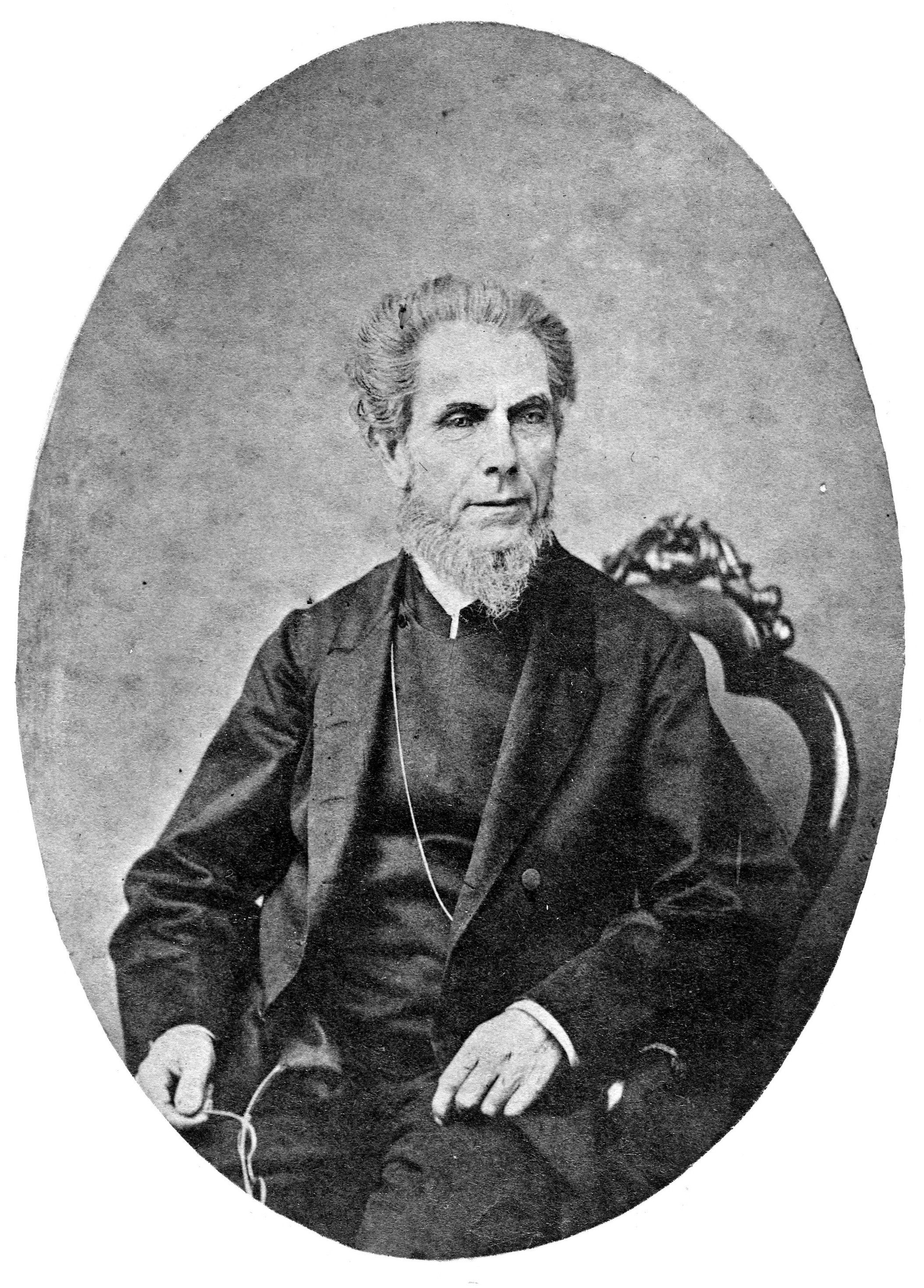 Aaron Buzacott, circa 1860. Taken by an unidentified photographer.